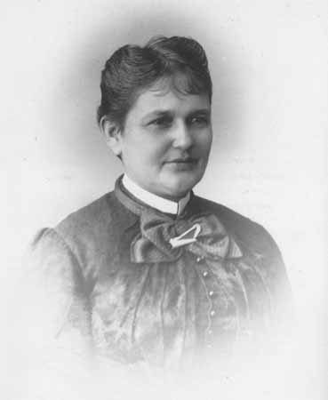 Lola Rodríguez de Tió, Puerto Rican rebel at the Grito de Lares. Obtained from library of Congress